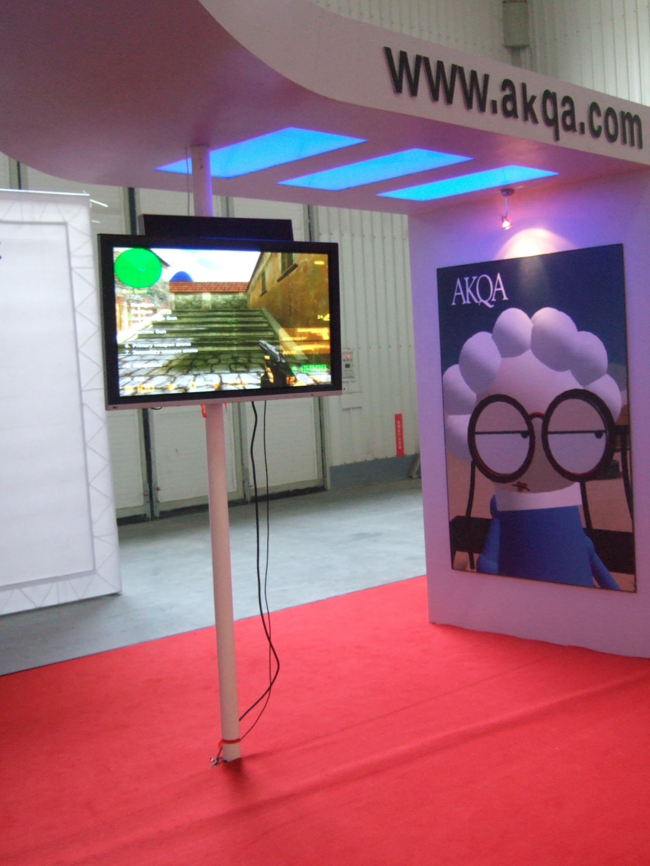 AKQA Asia stands were designed/built using various Machinima Island characters